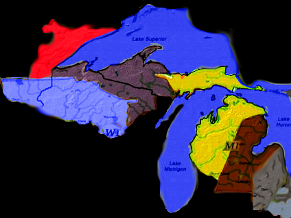 Map of Southern Anishinaabe Land Sessions 1807-1854